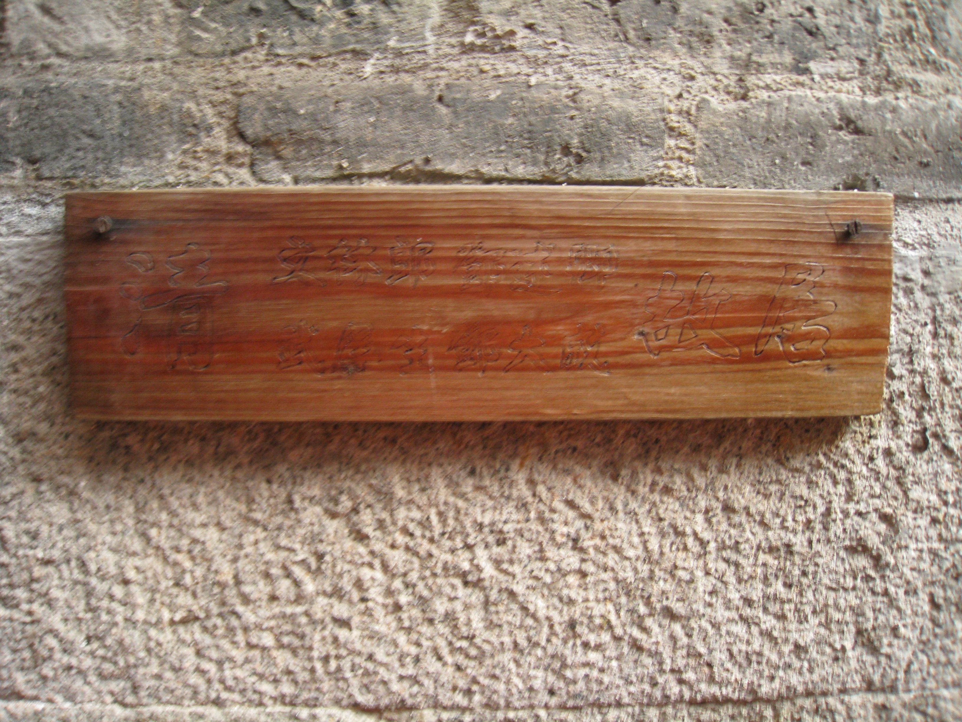 HK Ping Shan No. 64 Hang Mei Tsuen